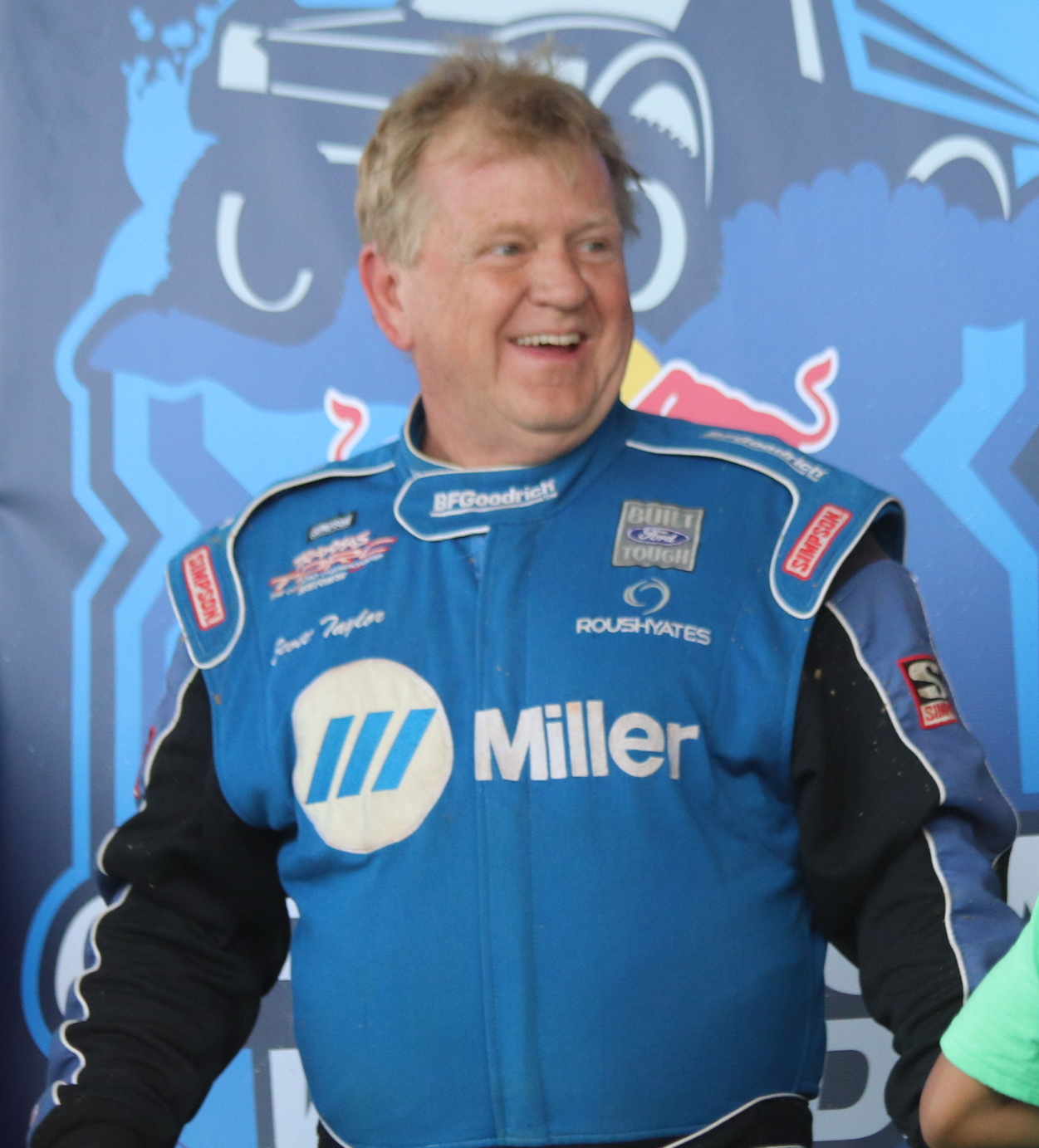 Retired off-road racer Scott Taylor after competing in a legends race at Crandon.